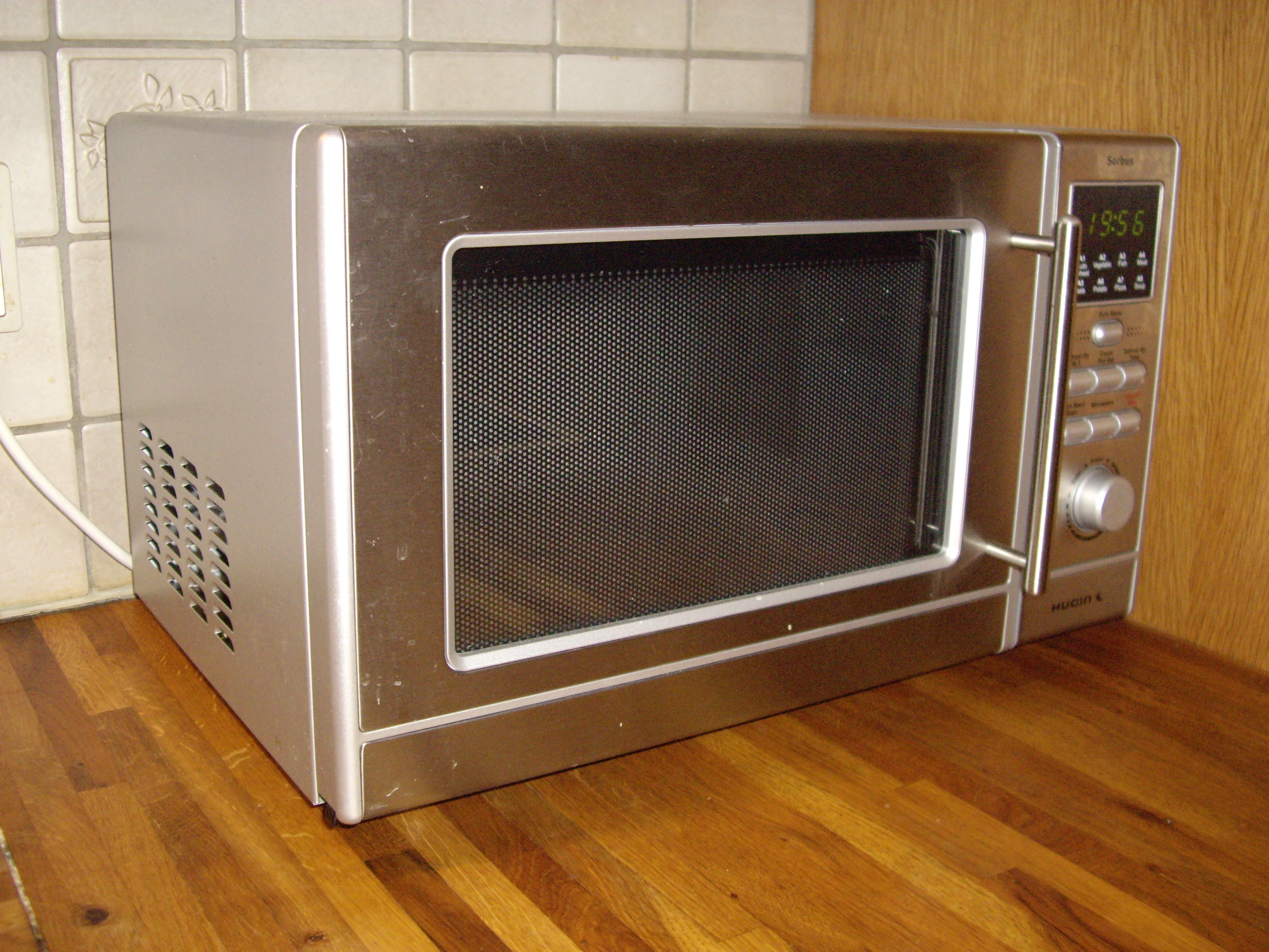 Microwave oven.